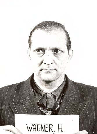 Horst Wagner as a witness during the Nuremberg Trials.